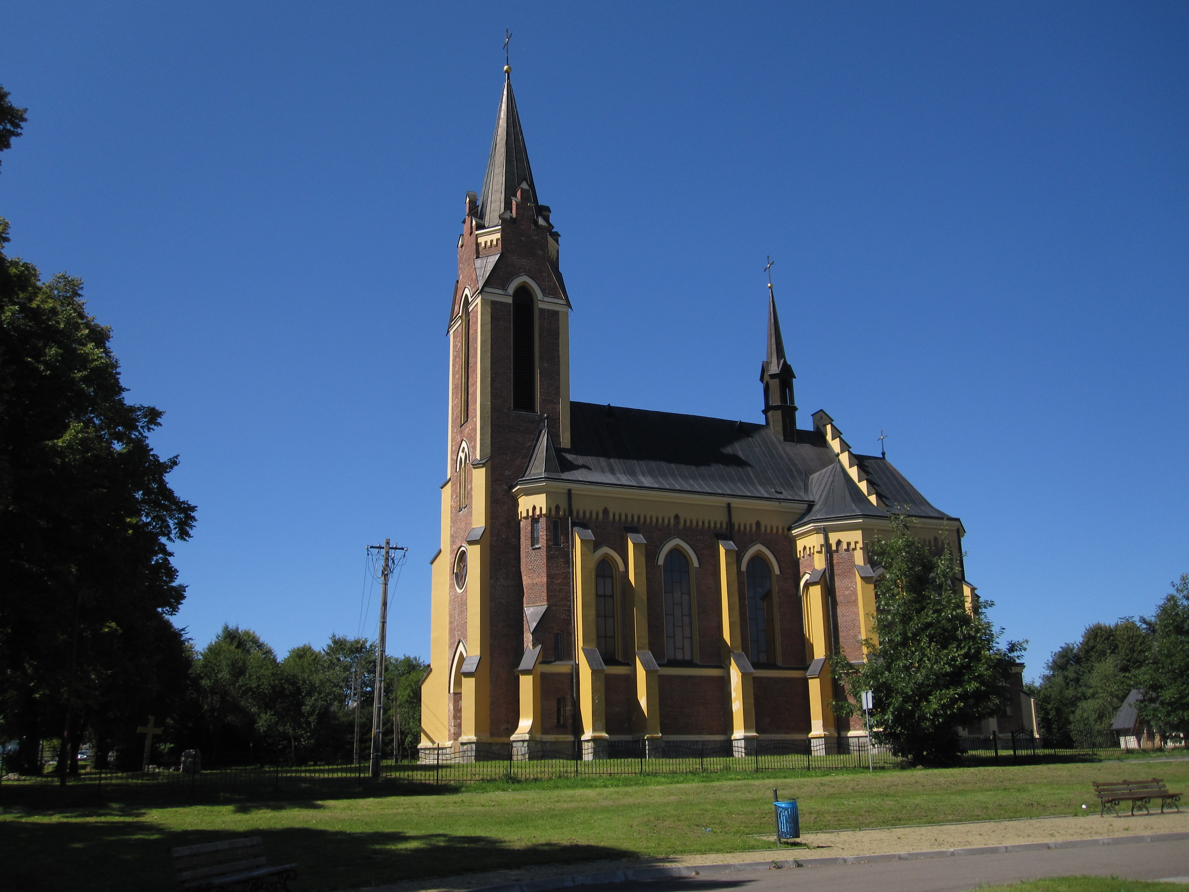 Saint Stanislaus church in Lutowiska